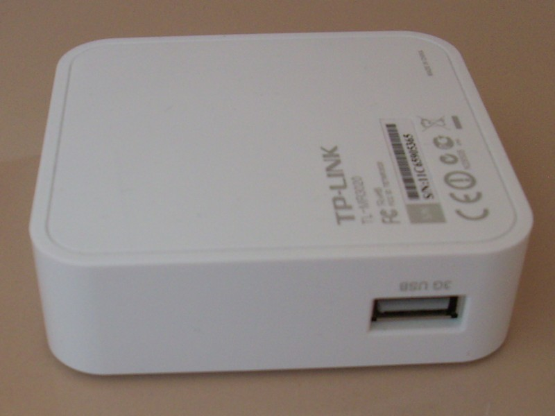 TP-LINK TL-MR3020, USB-connector